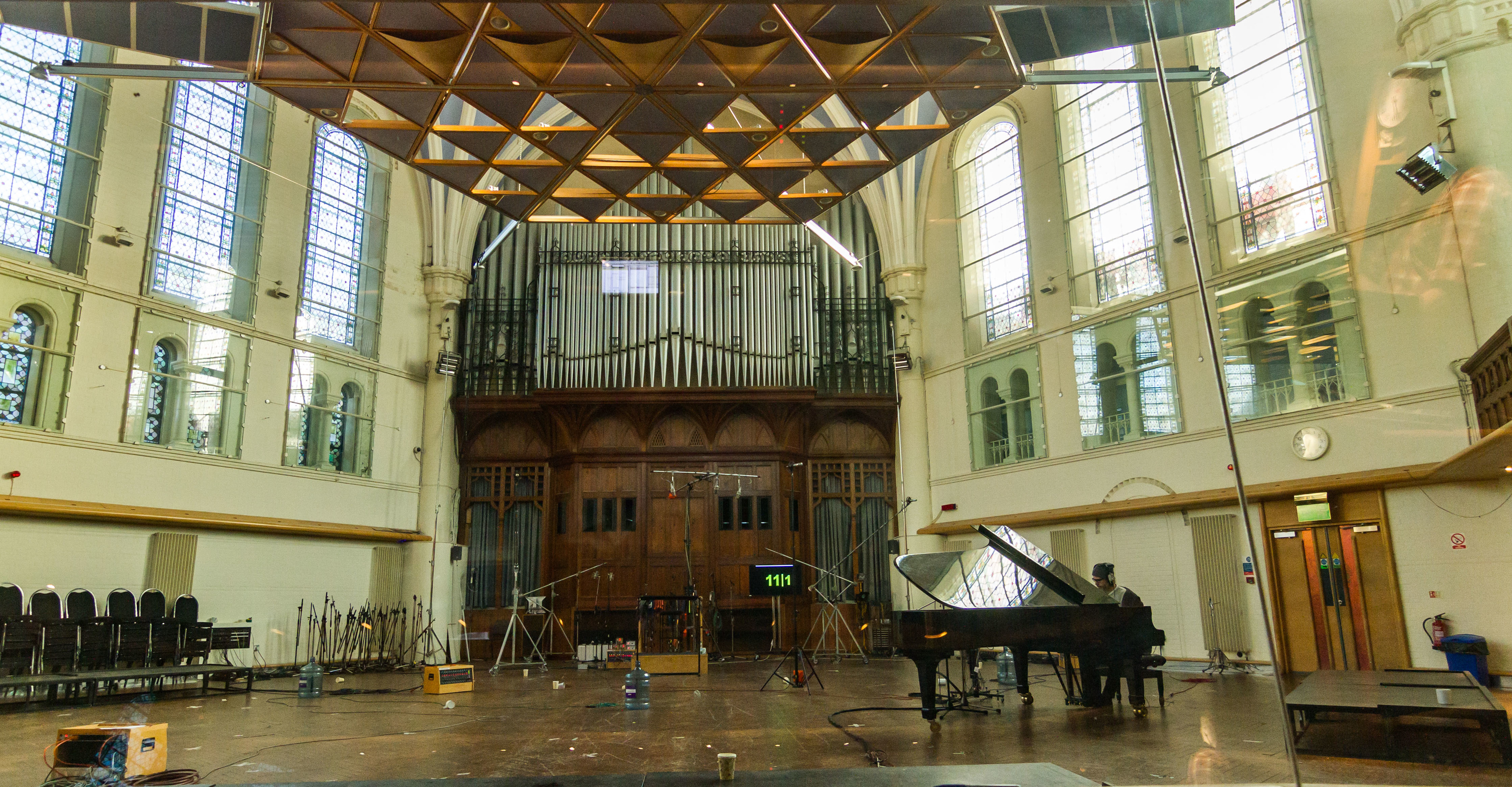 Interior of AIR Studios, AIR Lyndhurst Hall - Hampstead, London. Published by Ville Hyvönen on Flickr on April 18 2017, under the title "Air studios, London".